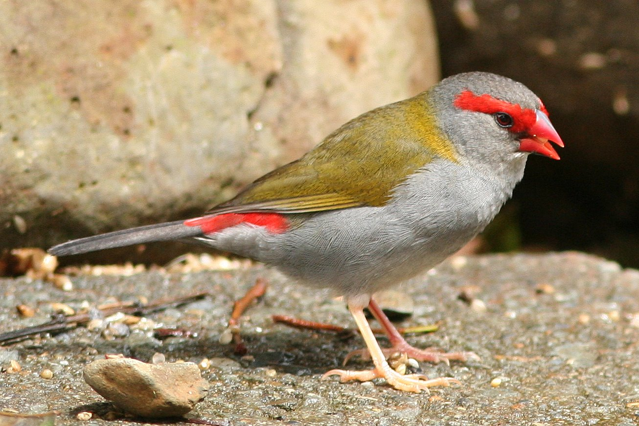 Red-browed Finch, Neochmia temporalis; wild bird